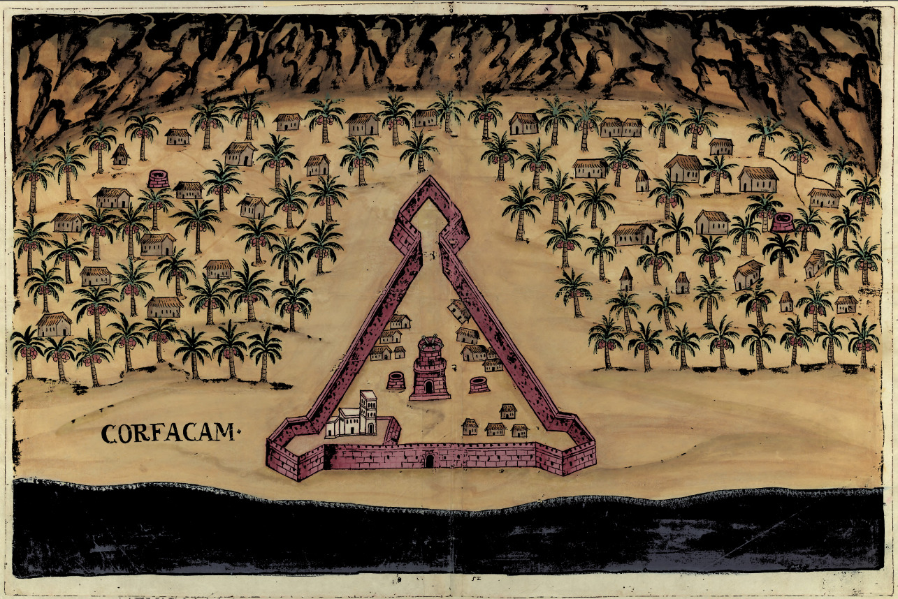 Portuguese Fortress of Khor Fakkan ( Corfacão) . Livro das plantas de todas as fortalezas, cidades e povoaçoens do Estado da India Oriental / António Bocarro [1635].